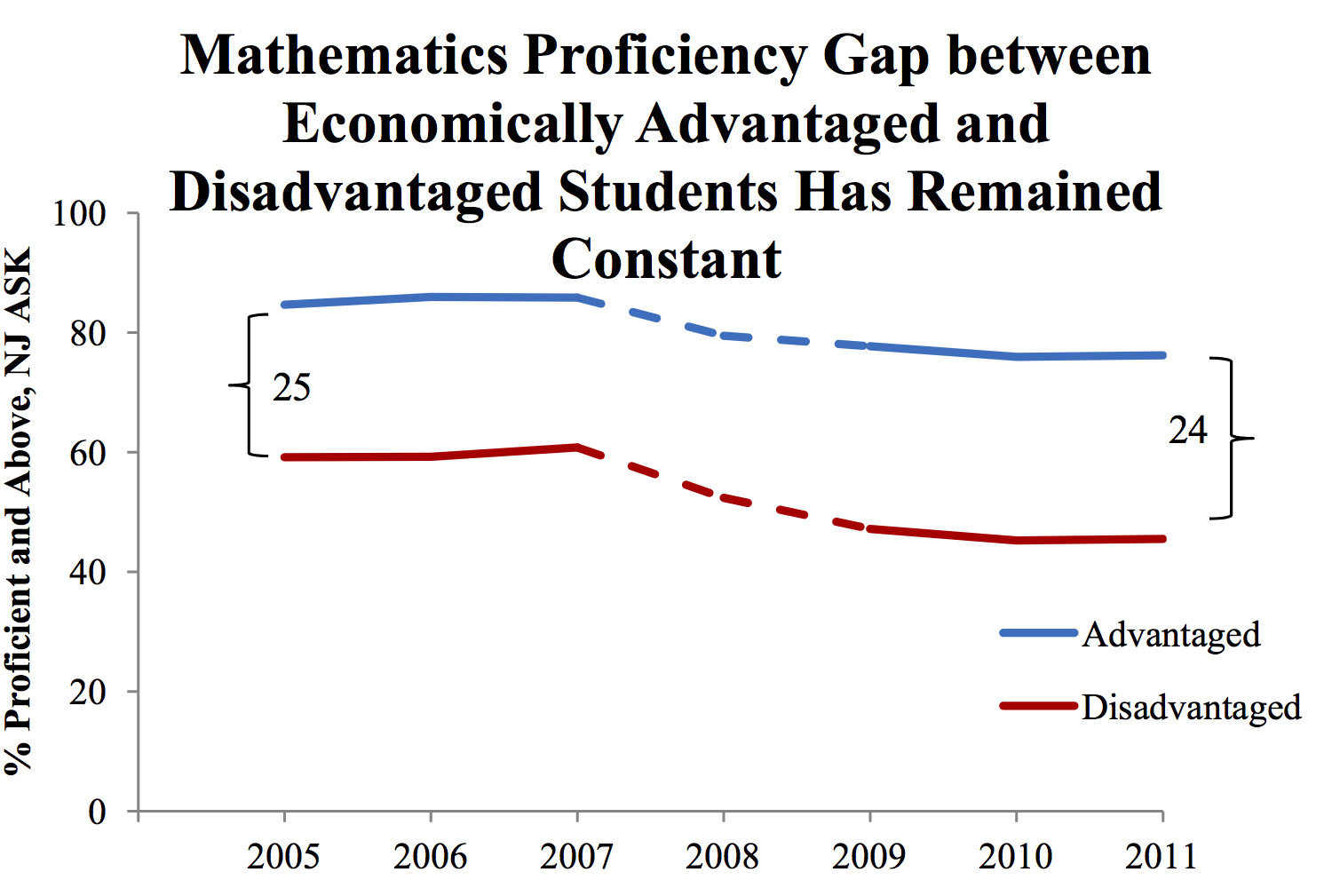 Graph from NJ Department of Education 2012 report on student performance in Abbott School districts. It depicts the gaps in Math proficiency between "advantaged" and "disadvantaged" students.